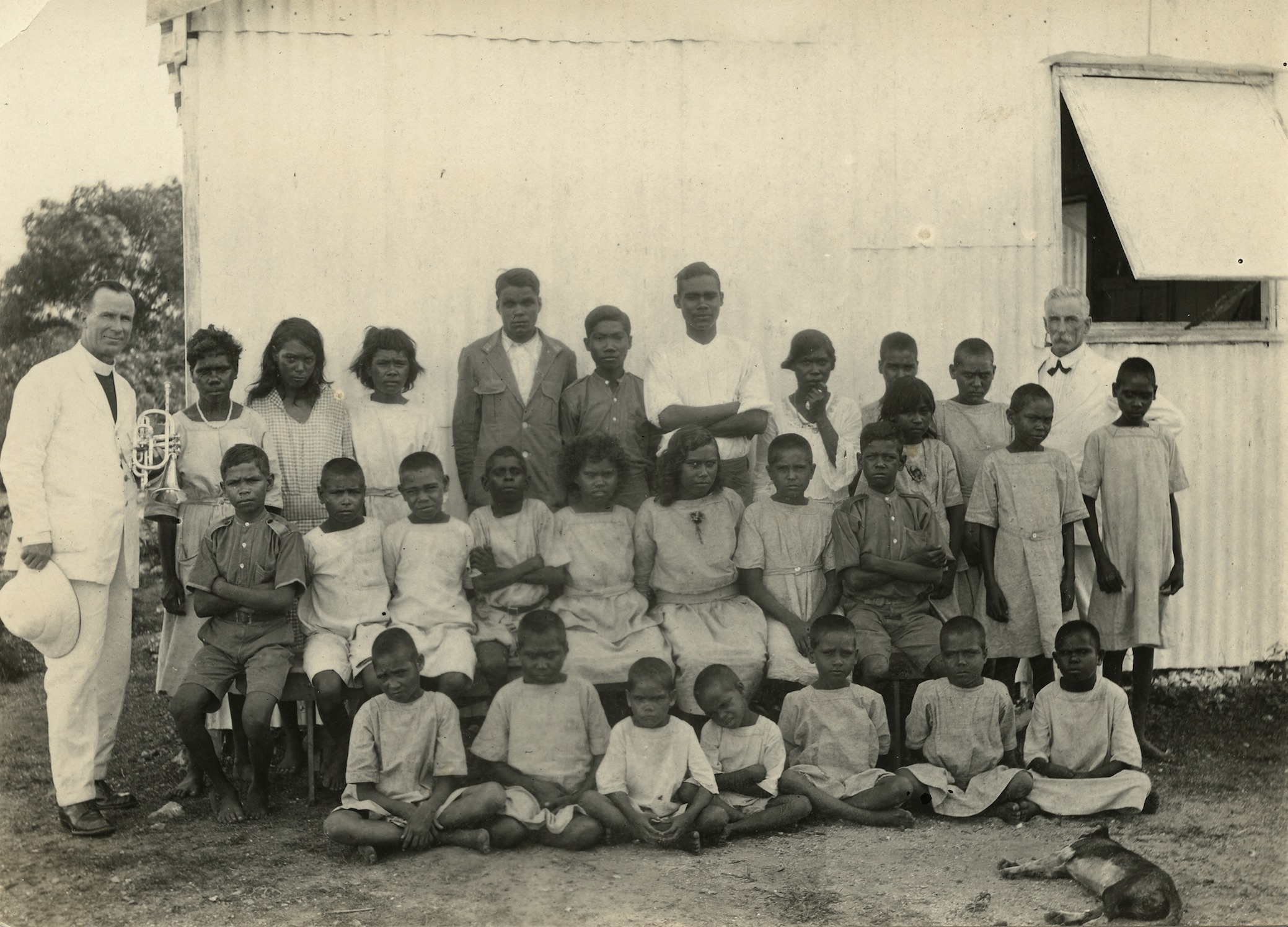 Stolen Generation children at the Kahlin Compound in Darwin, Northern Territory, Australia in 1921.